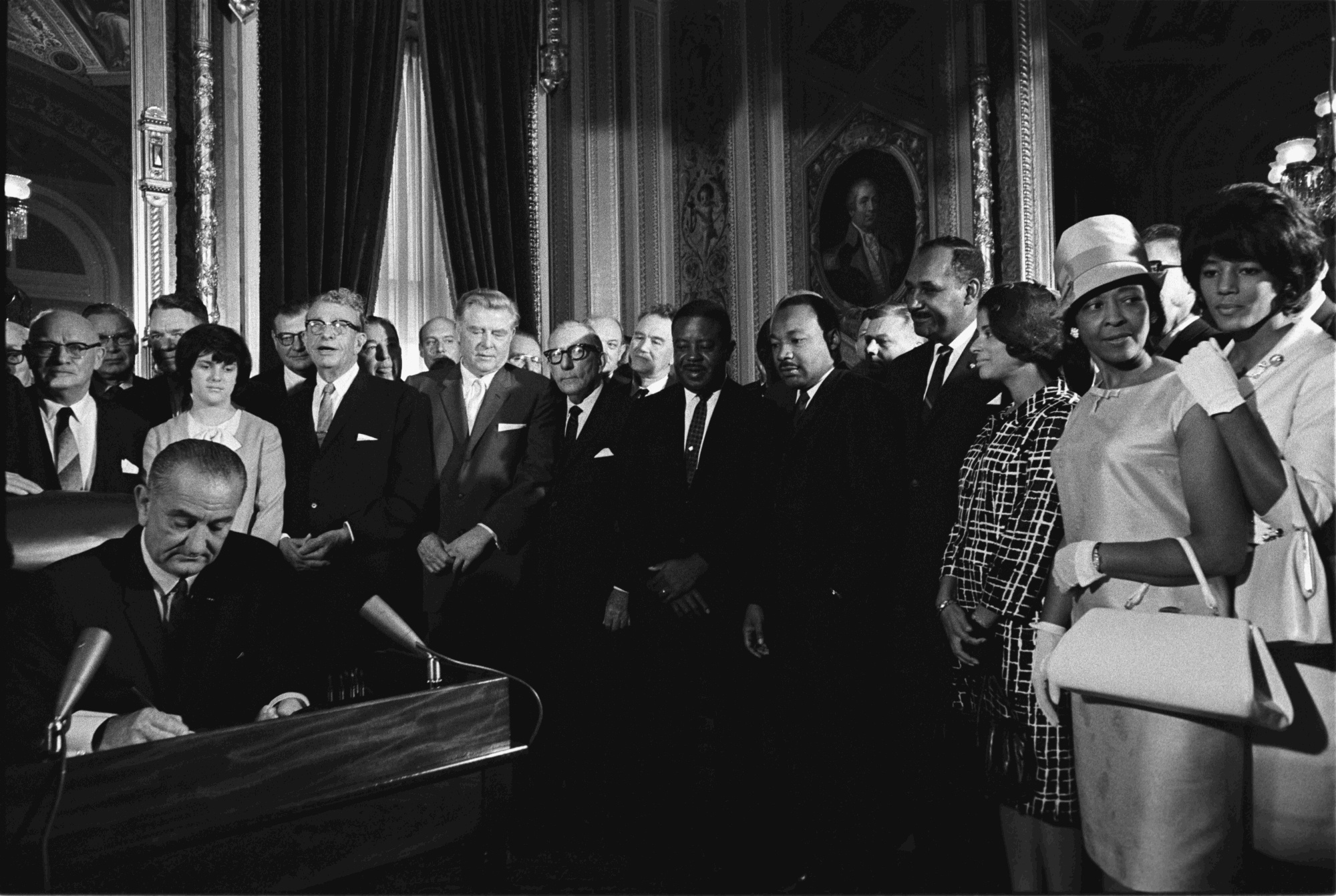 President Lyndon B. Johnson signs the Voting Rights Act of 1965 while Martin Luther King and others look on